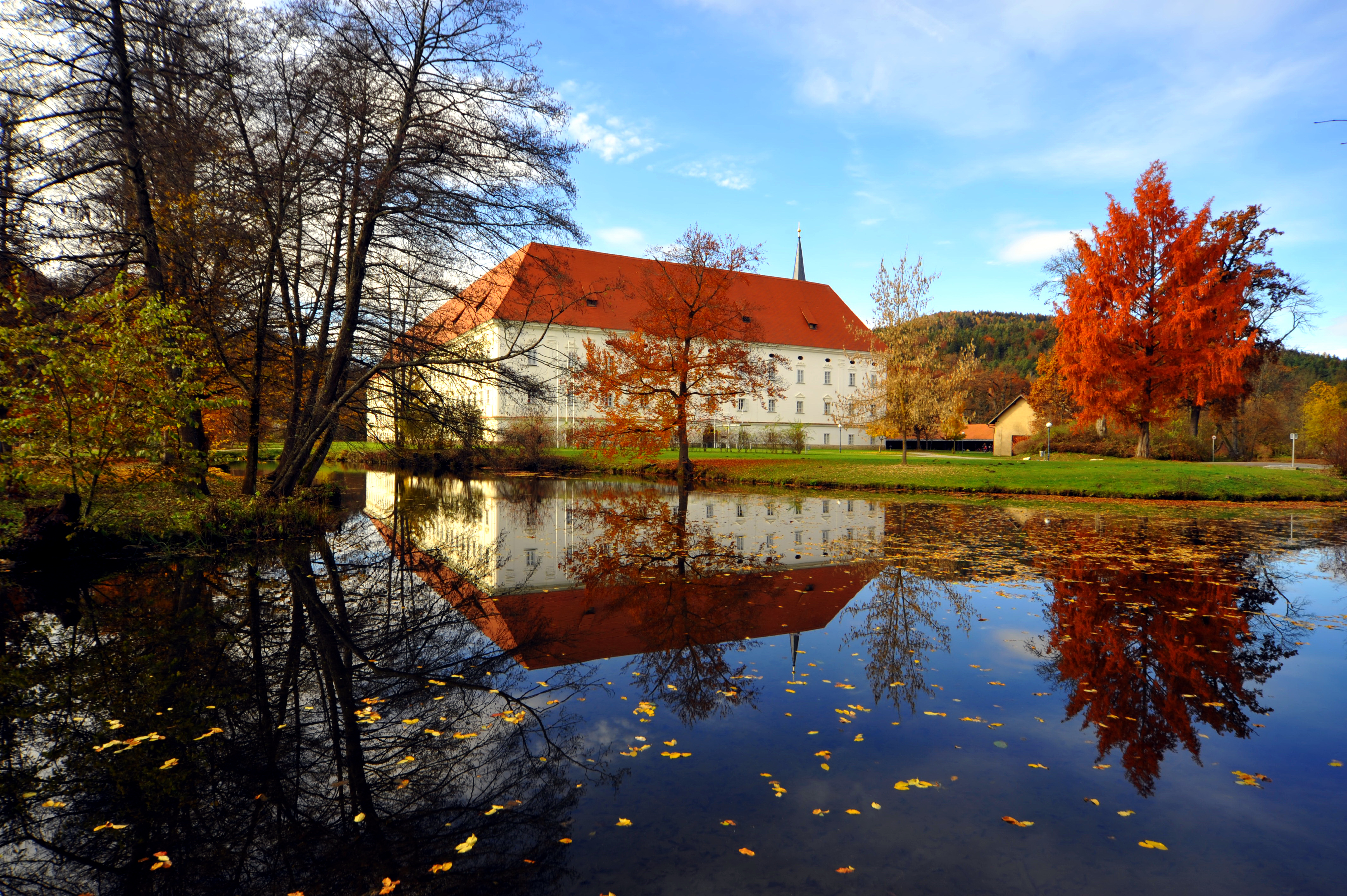 Cistercian monastery with park pond, 13th district Viktring, municipality Klagenfurt on the Lake Woerth, Carinthia, Austria